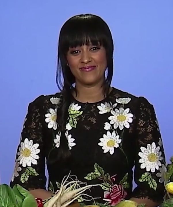 American actress Tia Mowry discussing her cookbook, "Whole New You: How Real Food Transforms Your Life for a Healthier More Gorgeous You" on Sidewalks TV show.